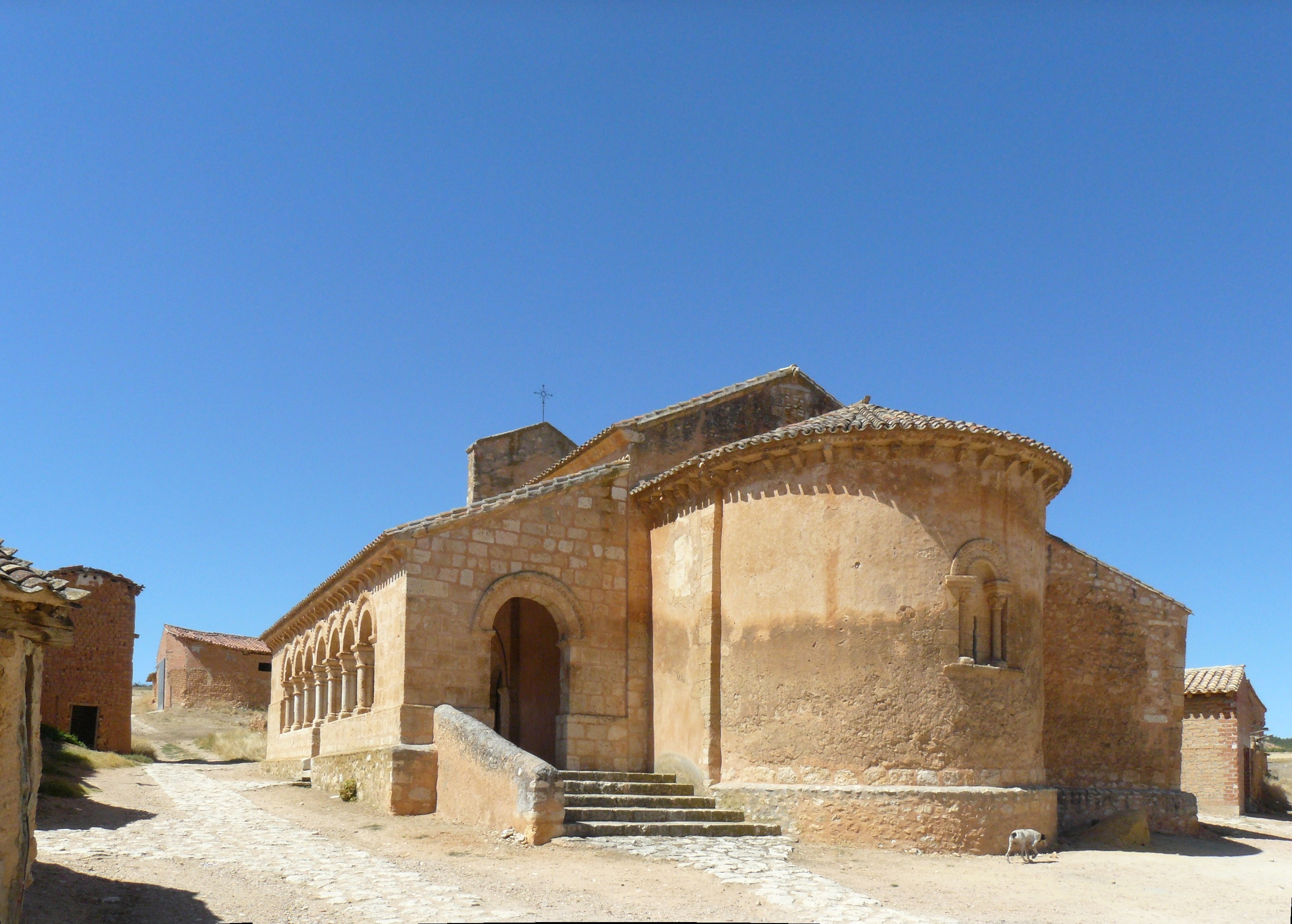 Church of San Martín, Rejas de San Esteban, Soria (Spain), as seen from the East.